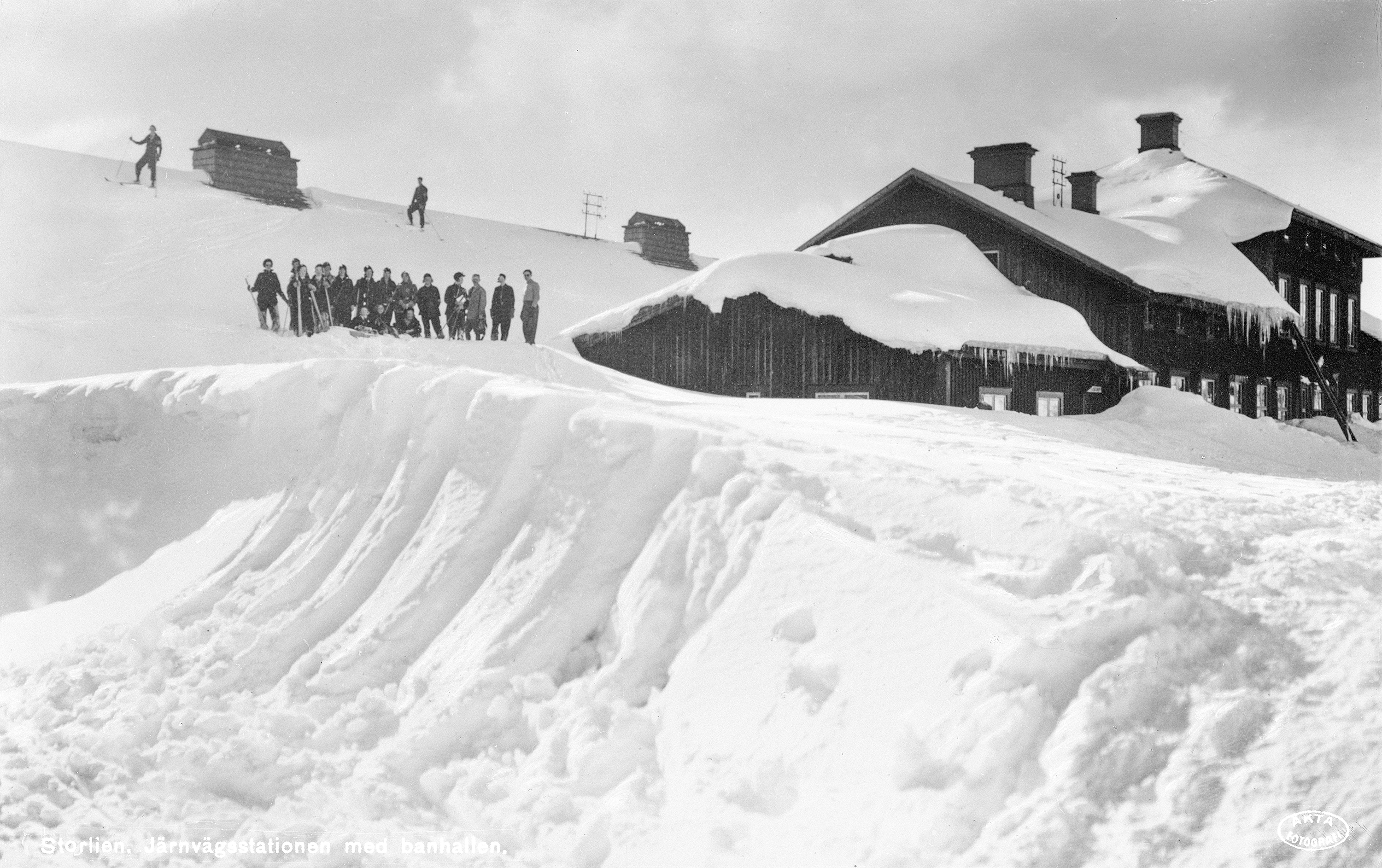 Storlien Description: Järnvägsstationen med banhallen. Geographic coverage: Län: Jämtland, Kommun: Åre, Landskap: Jämtland, Socken: Åre Time period: 1920; Part of: Early 20th century; From: 01-01-1920 — To: 31-12-1920; 1920-01-01; 1939-12-31; 1920-01-01 - 1939-12-31 Date of creation: 1920; 1920-01-01; 1939-12-31; 1920-01-01 - 1939-12-31 Type: railway station; Fjällmiljö; Kommunikationsväsen; Miljöer Subject: Identifier: Language: Svenska Rights: Public Domain Mark Publisher: Riksantikvarieämbetet Data provider: Riksantikvarieämbetet